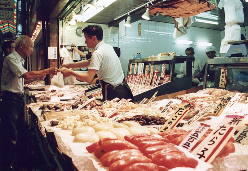 AA_VavHoutte-5081_016A.JPG